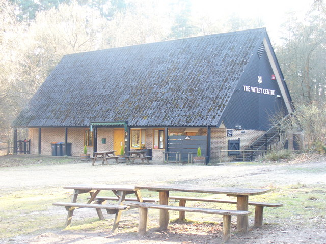 The Witley Centre National Trust's Visitor centre for Witley Commons - but closed in February. In front is a picnic area, only a few steps from a large car park.